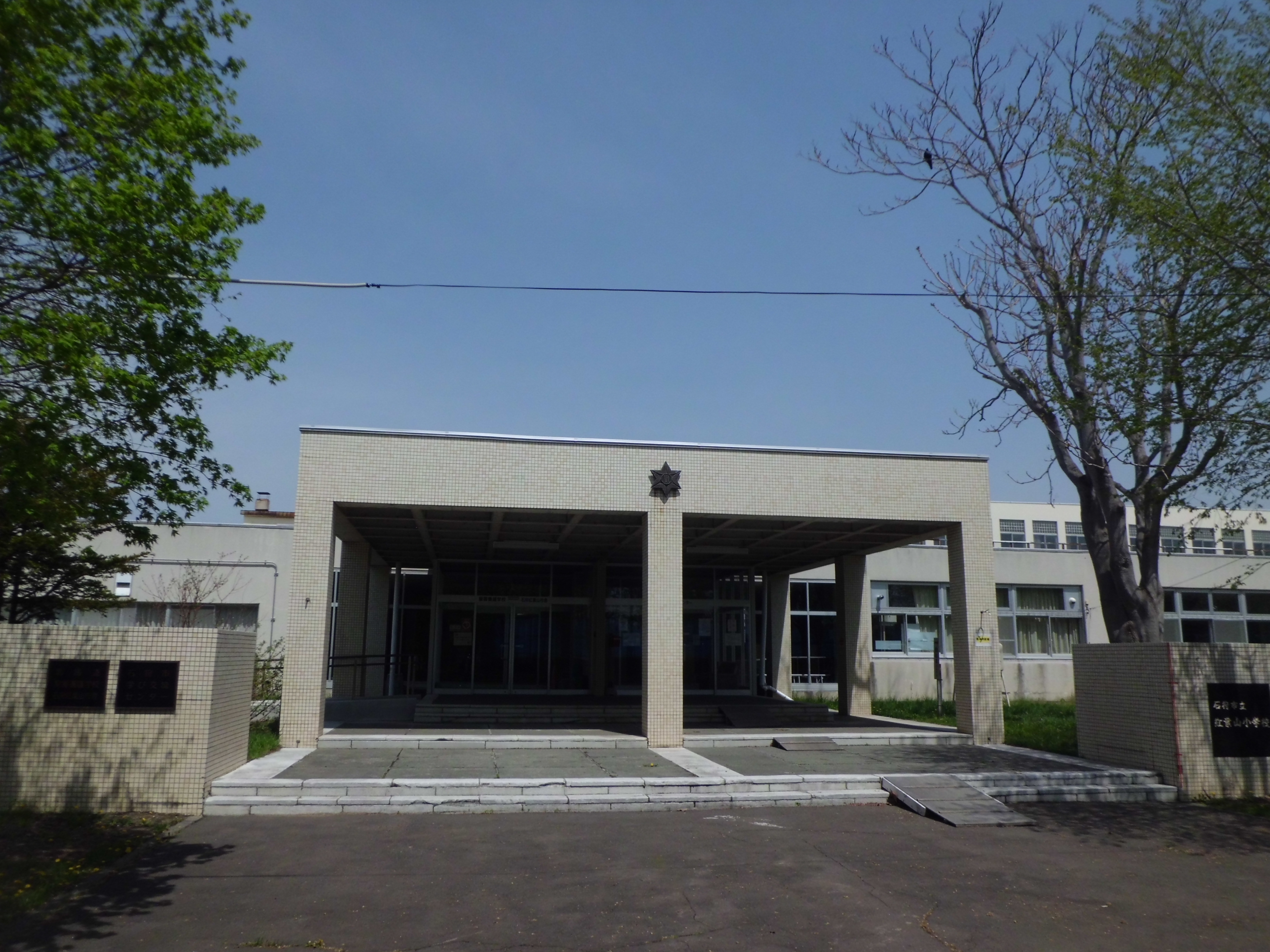 Hokkaido Hoshioki School for Special Needs; Ishikari Momijiyama Branch. Former Ishikari City Momijiyama Elementary School.